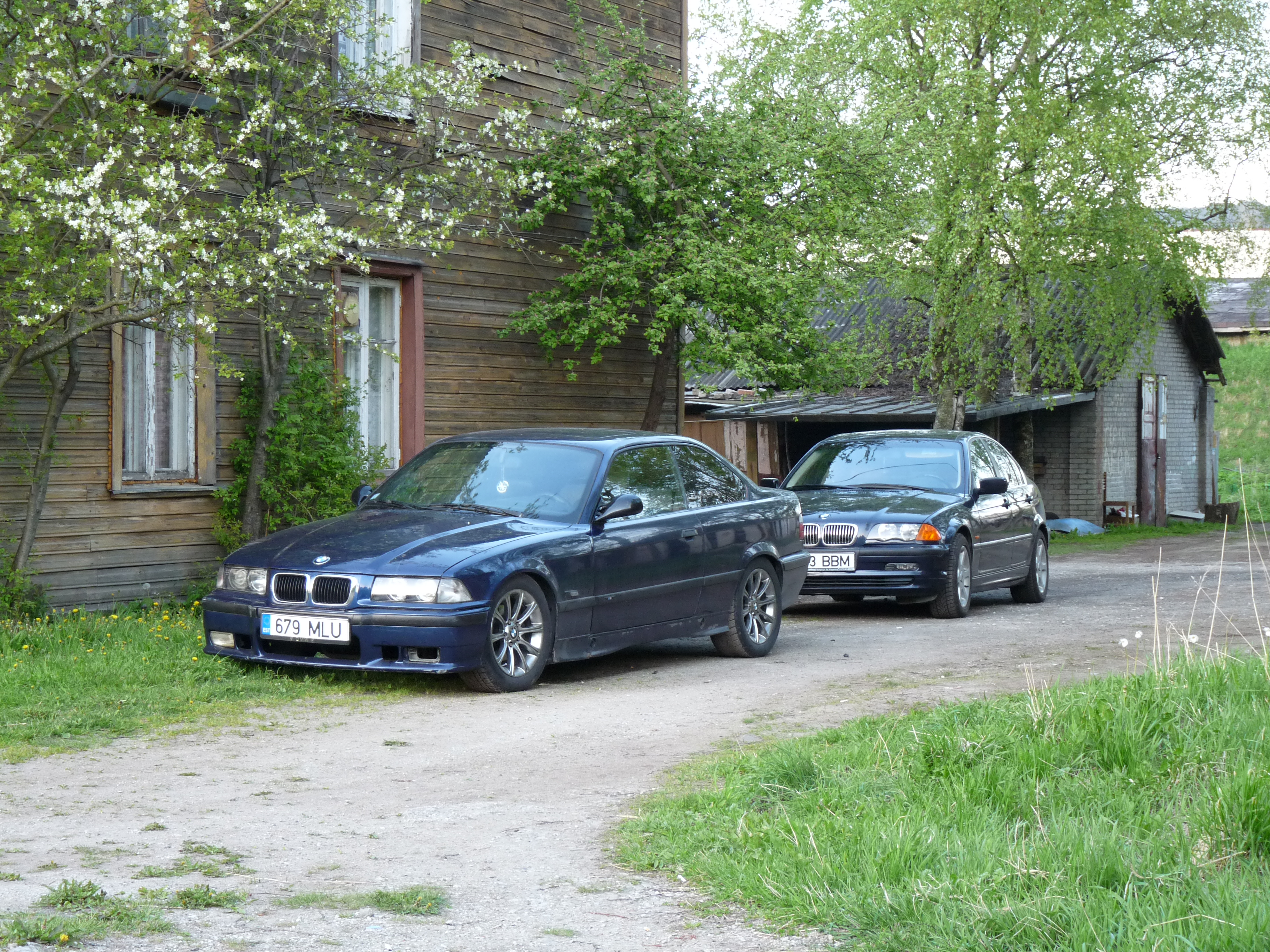 Wooden apartments in Kopli